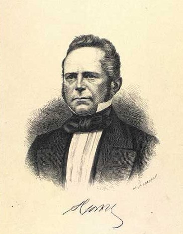 Søren Hjorth (1801-1870), Danish inventor, railway pioneer, engineer, farmer, and translator